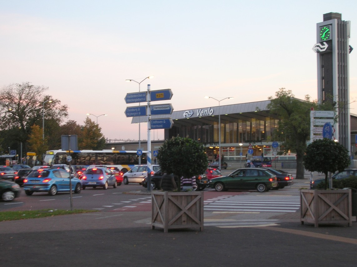 Railway station of Venlo, the Netherlands.